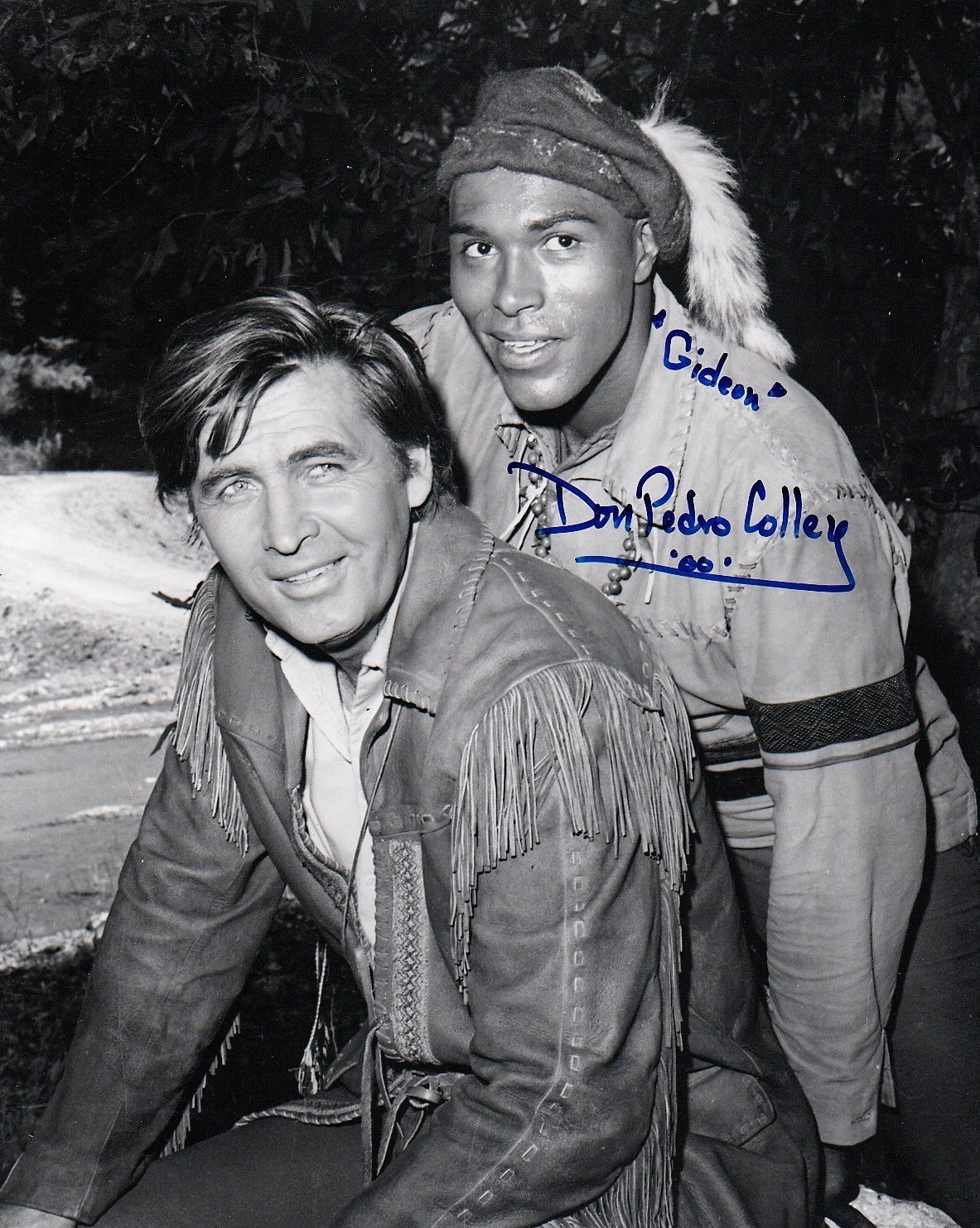 Fess Parker (left) & Don Pedro Colley in the TV series Daniel Boone - publicity still